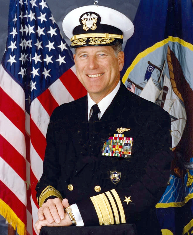 Admiral Charles S. Abbot as a Vice Admiral